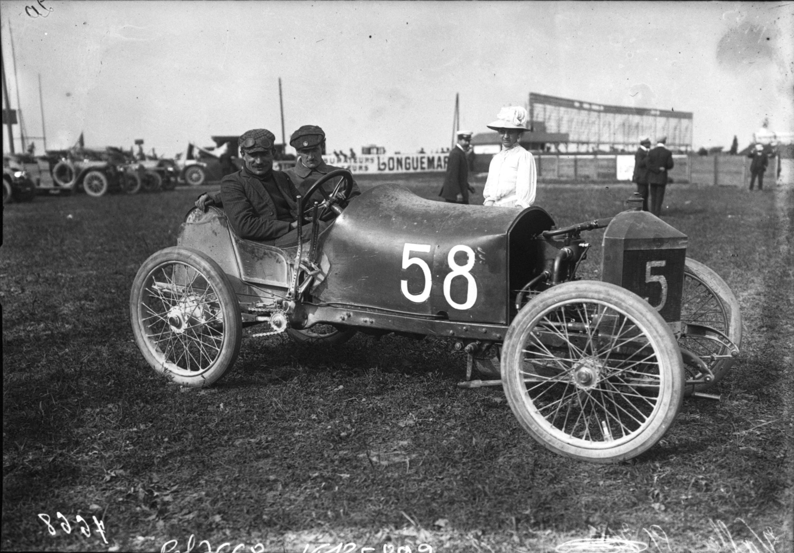 Jean Vallée in his Ariès at the 1908 Grand Prix des Voiturettes at Dieppe.